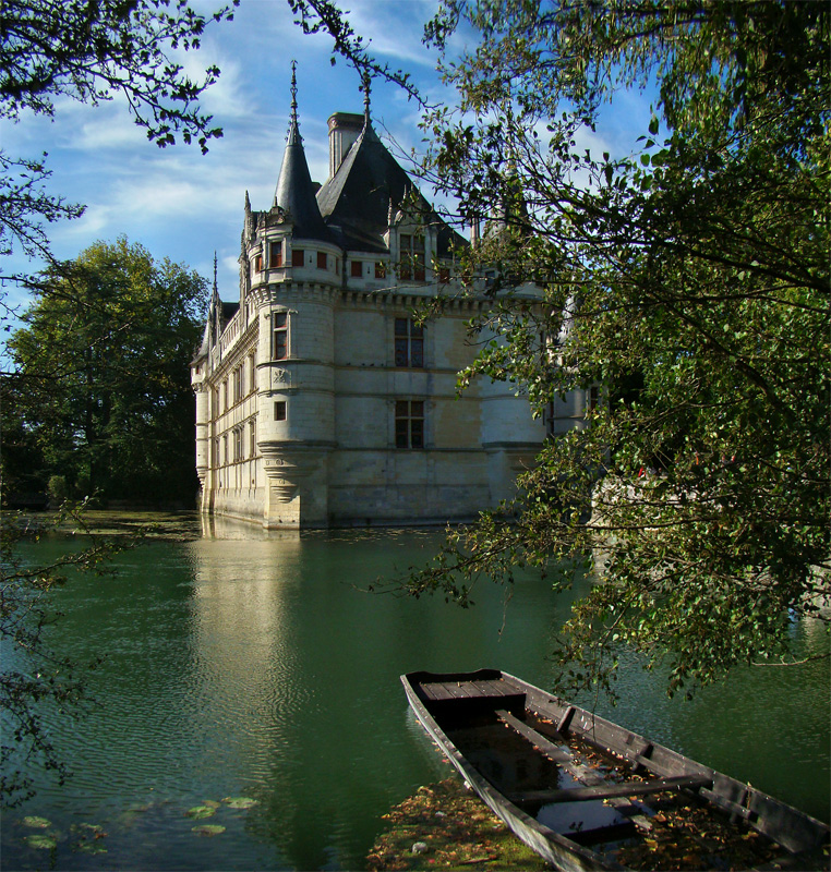 Château d'Azay-le-Rideau, Indre-et-Loire, Centre, France. Garden view.